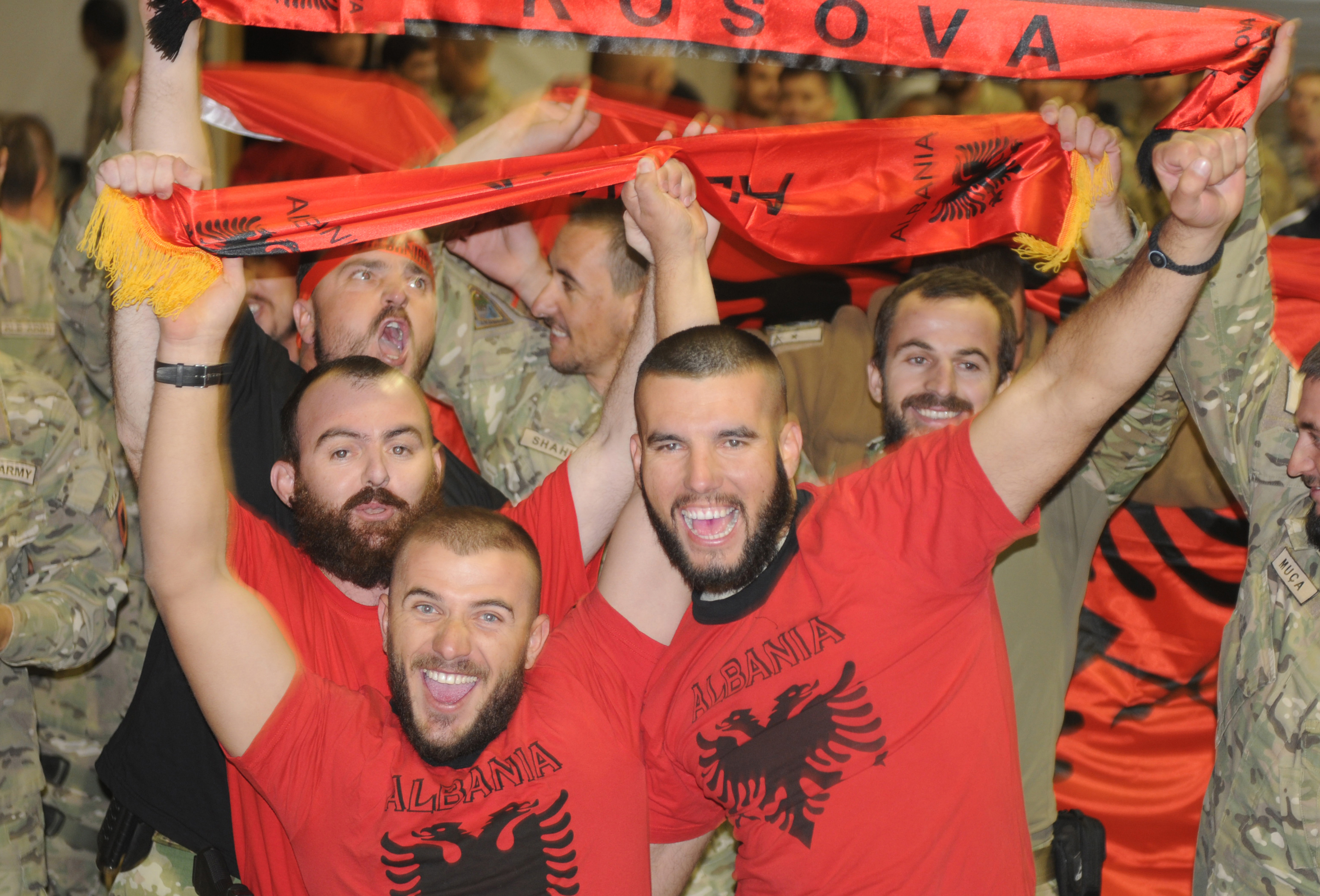 After a somber ceremony for Albania's 99th year of independence at Forward Operating Spin Boldak, Afghanistan, Nov. 28, Albanian special forces soldiers, often reserved and quiet, opened a flood gate of emotions as they danced and screamed in celebratory fashion. Since its acceptance into NATO in 2009, the tiny nation just south of Kosovo, where many ethnic Albanians remain, has been a part of the many troops-contributing nations in the war on terrorism. Unit: 504th Battlefield Surveillance Brigade DVIDS Tags: Forward Operating Base Spin Boldak; Spin Boldak; NATO forces; Special Forces; Albania; Albanian army; war on terrorism; Albanian special forces; Albanian indedepence; Albanian 99th Independence; ethnic Albanians